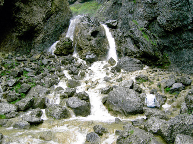 Gordale Beck flowing down Gordale Scar Sometimes it's possible to climb up Gordale Scar alongside the beck and stay dry - not on the day this photograph was taken though.